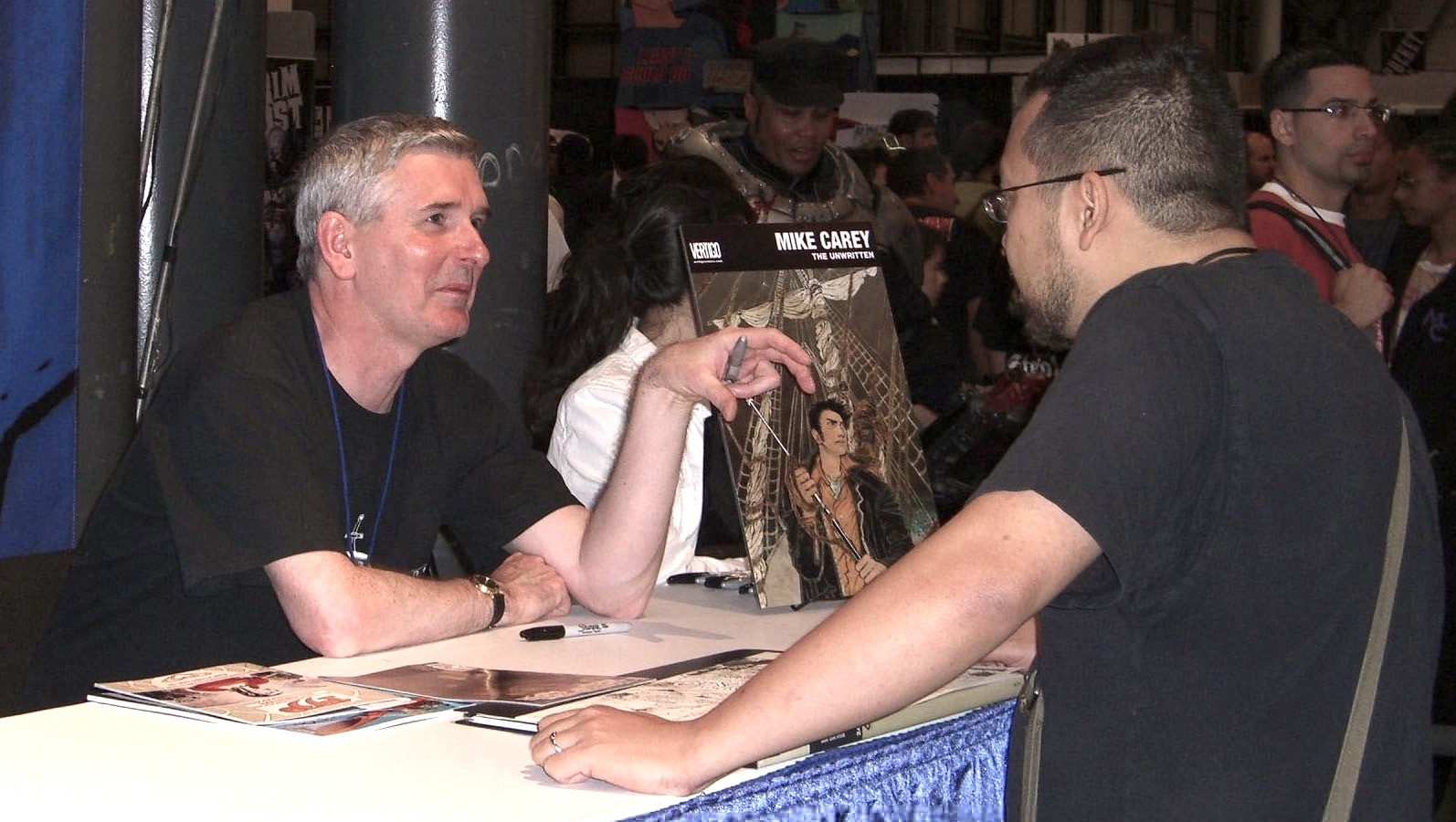 Comic book creator Mike Carey, at the DC Comics booth at the New York Comic Convention in Manhattan, October 10, 2010. Photo by Luigi Novi. This photo may be used, modified and published for any purpose, only if a easily visible credit to the photographer is placed near the photo in each instance in which it is used. (See licensing information below.) Publication of this photo without this proper attribution constitute copyright infringement. For more information on my photos, you can contact me here.